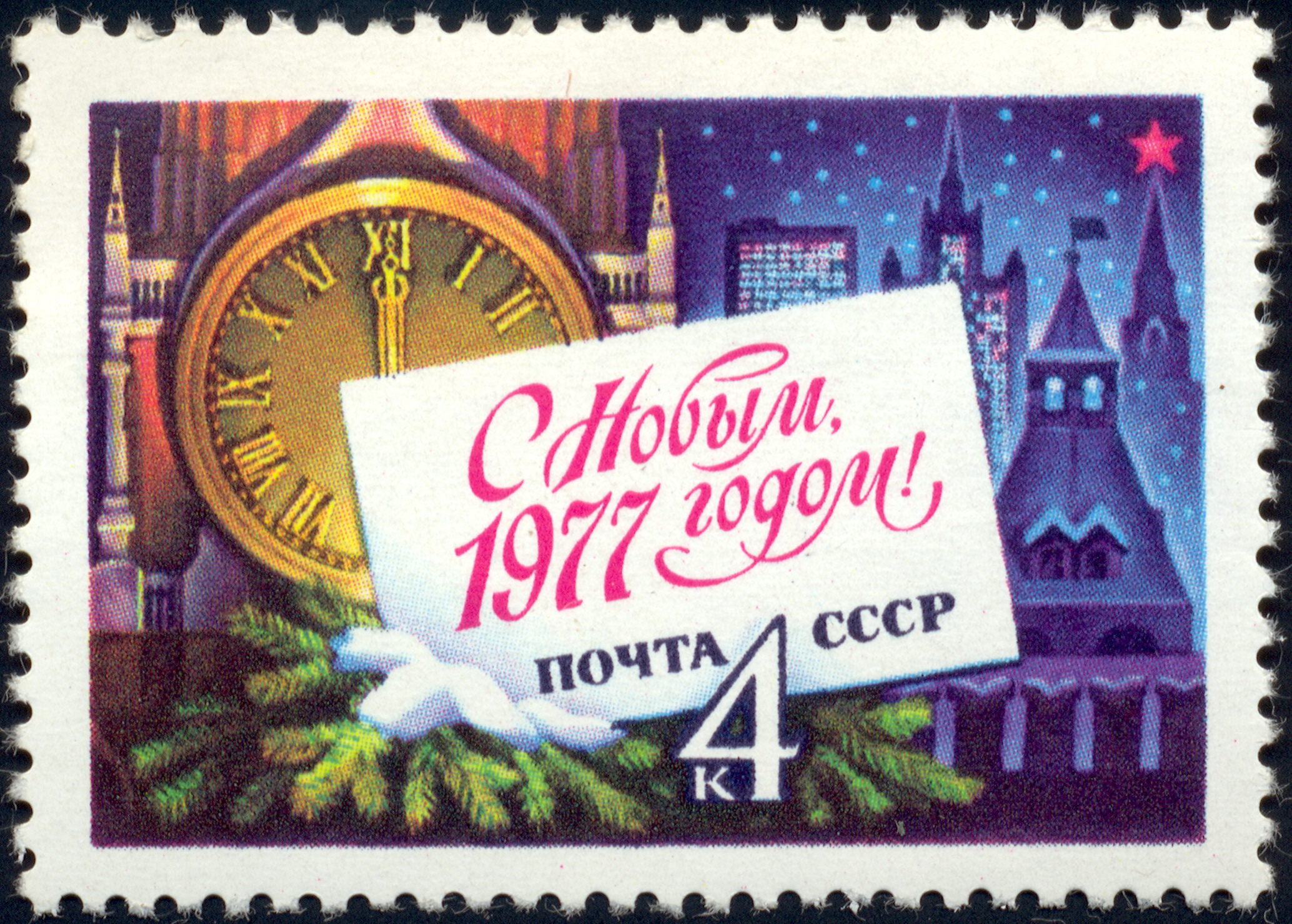 USSR New Year 1977 stamp, 1976, 4 kop.